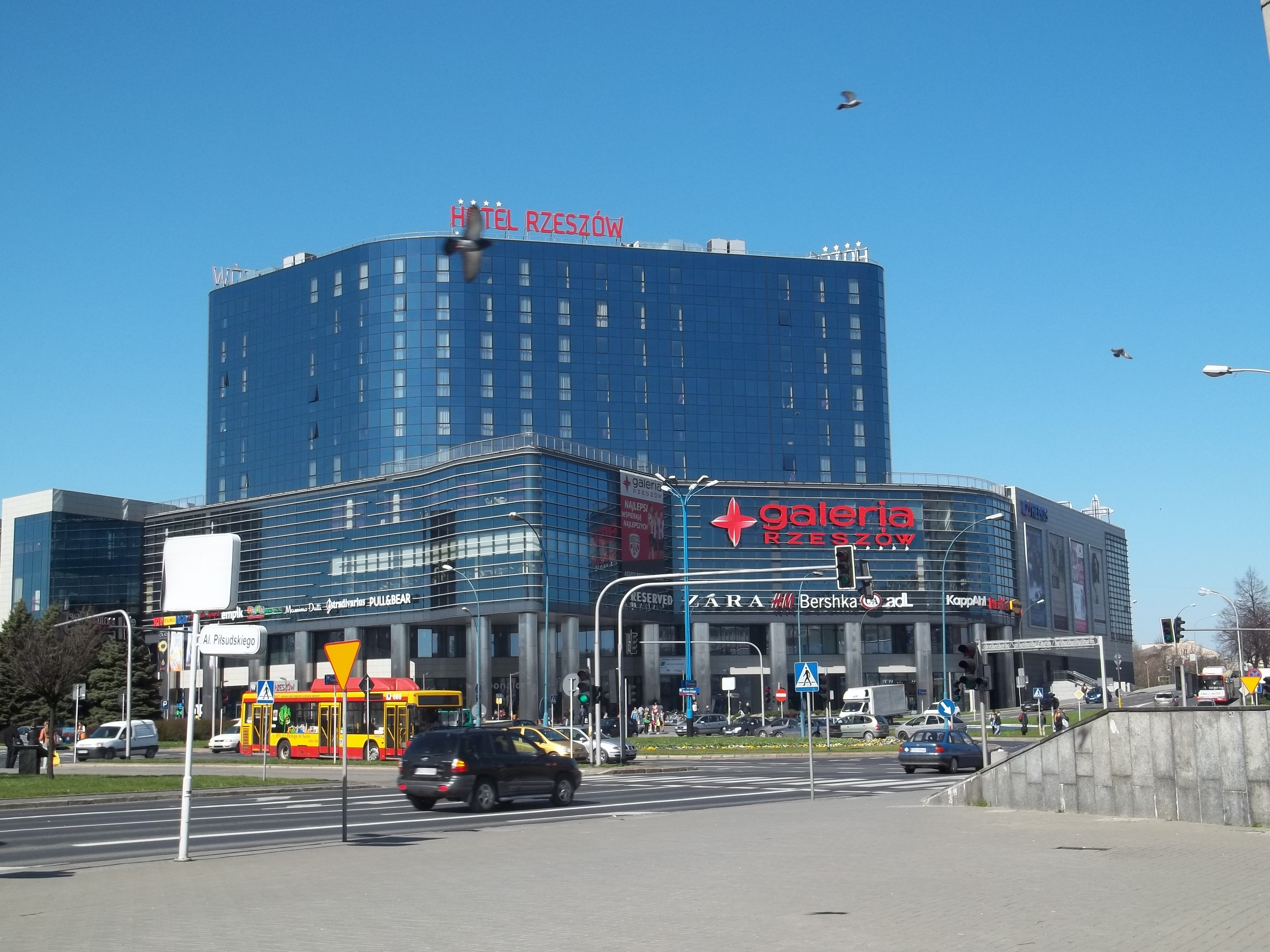 CH Galeria Rzeszów shopping center